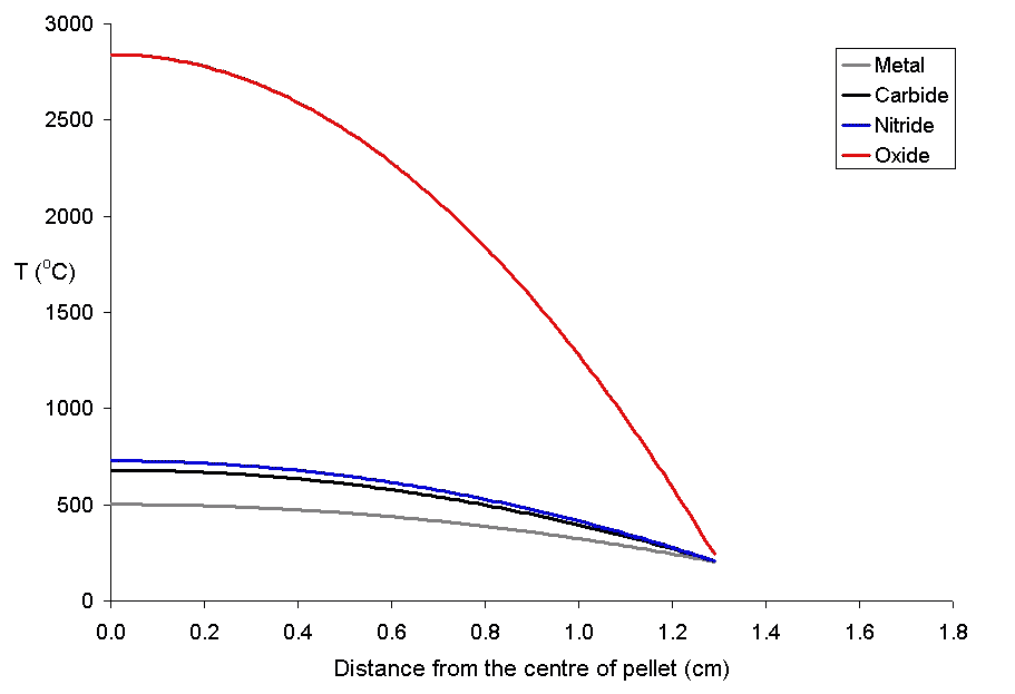 Nuclear fuel temp calcs